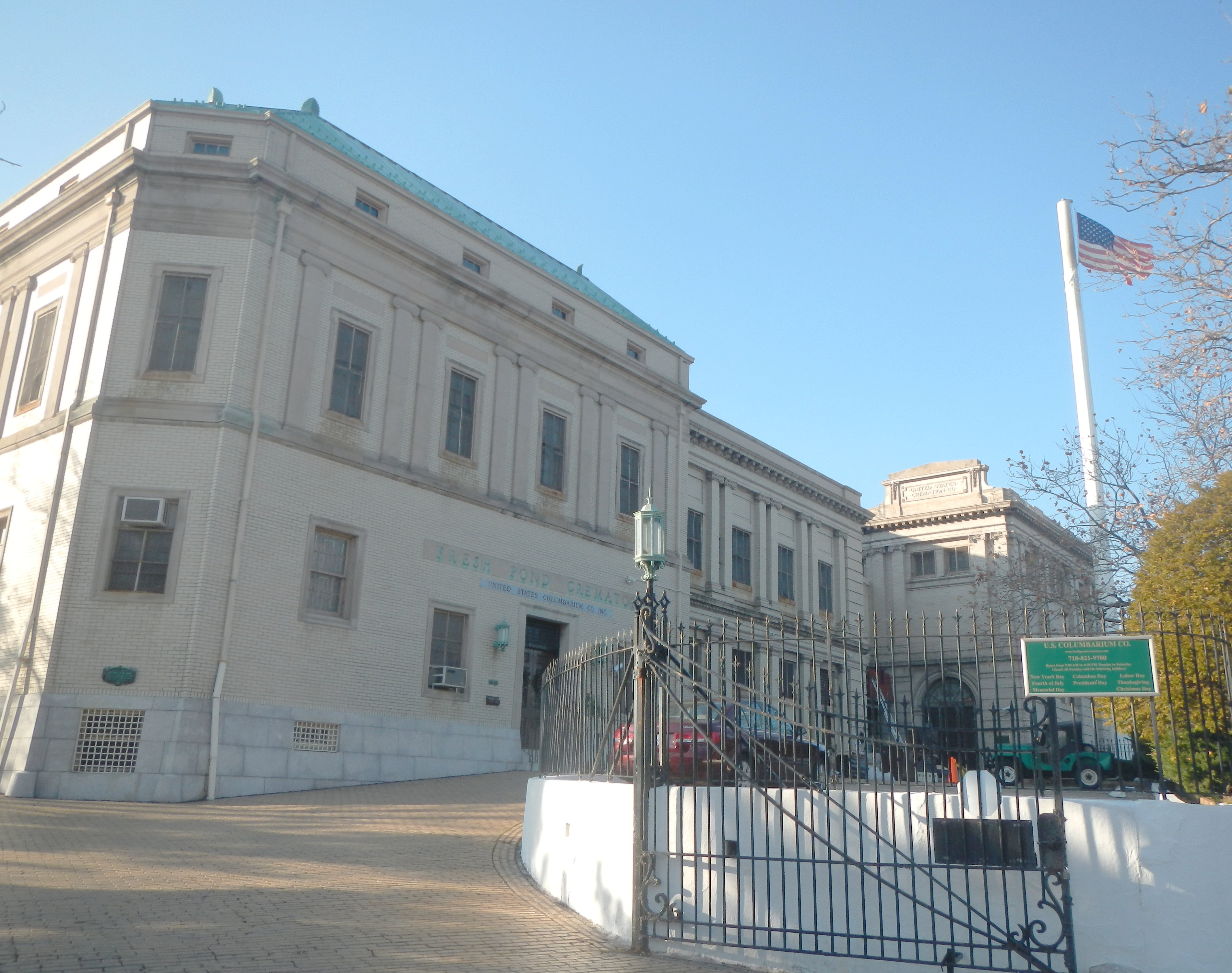 Looking northwest at crematorium on a sunny afternoon.